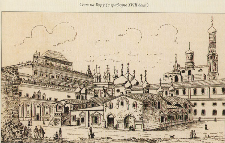 Church of Spas-na-Boru (Savoir in a pine forest) in the Kremlin Церковь Спаса на Бору